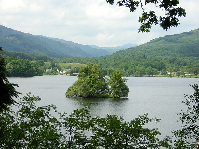 Crannog in Loch Ard.